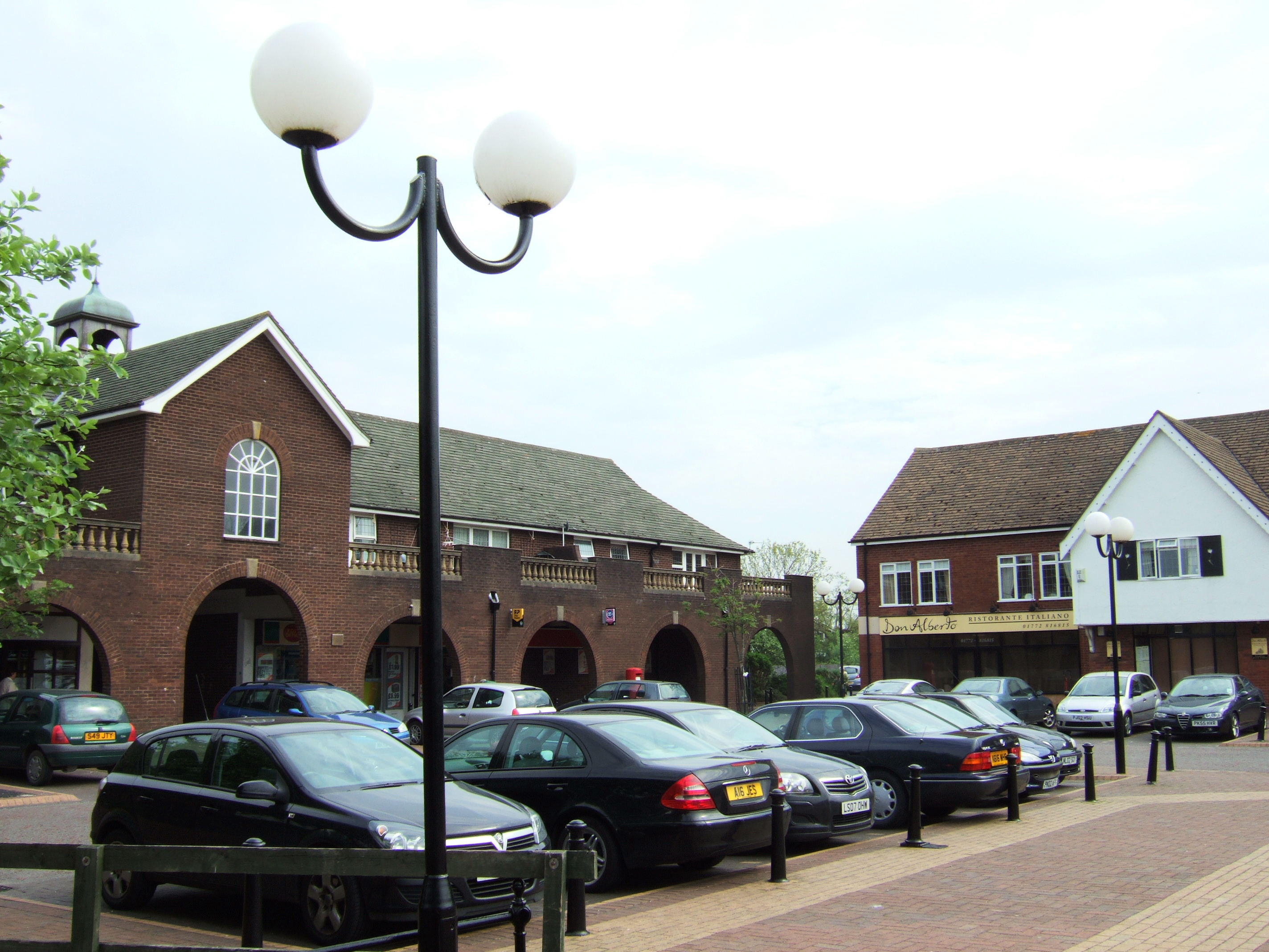 Mark Square shopping centre in Tarleton, Lancashire.